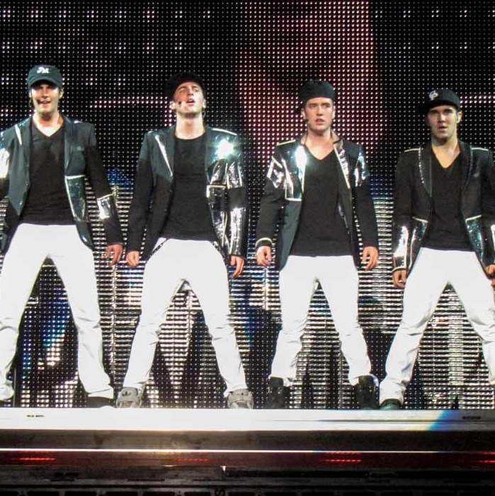 Big Time Rush performs at the 1st Bank Center in Broomfield, CO on February 2, 2012.